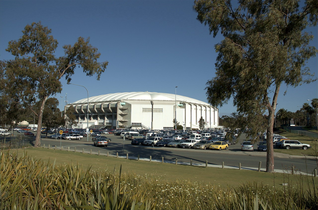 Burswood Dome at Burswood Casino.